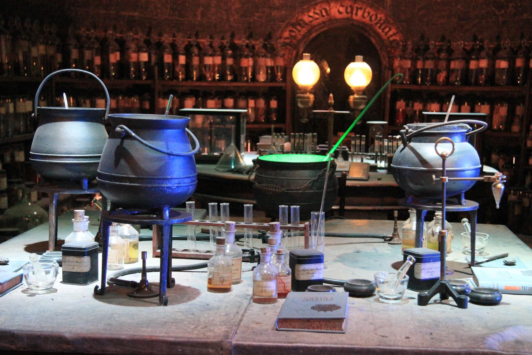 Warner Bros. Studio Tour London: The Making of Harry Potter.